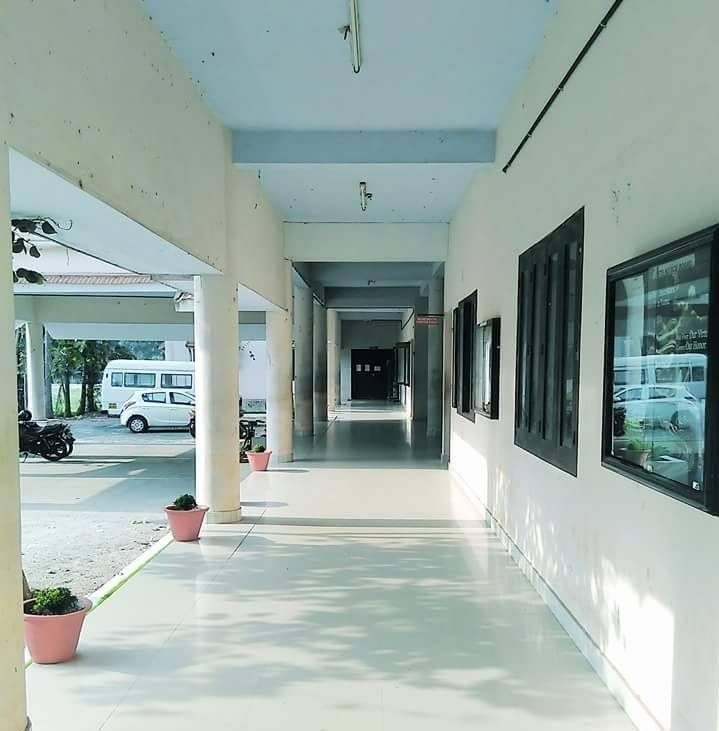 CEK Corridor Main Block